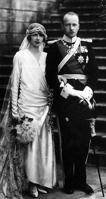 Princess Mafalda of Savoy posing with Philip of Hesse on their wedding day. Racconigi, 23rd September 1925